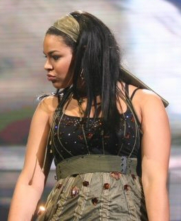 Jordin Sparks at American Idol (cropped)